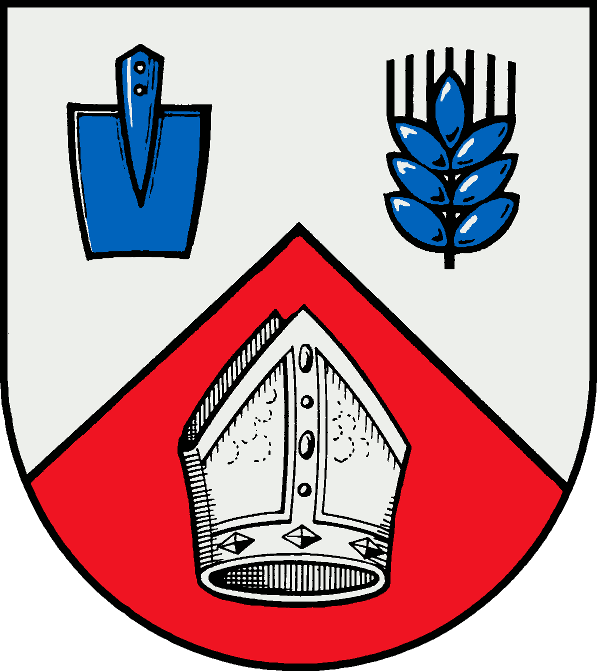 Coat of arms of the municipality Bönebüttel in Schleswig-Holstein, Germany.